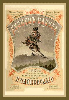 Cover of the first edition of the piano score of the opera "Vakula the Smith"